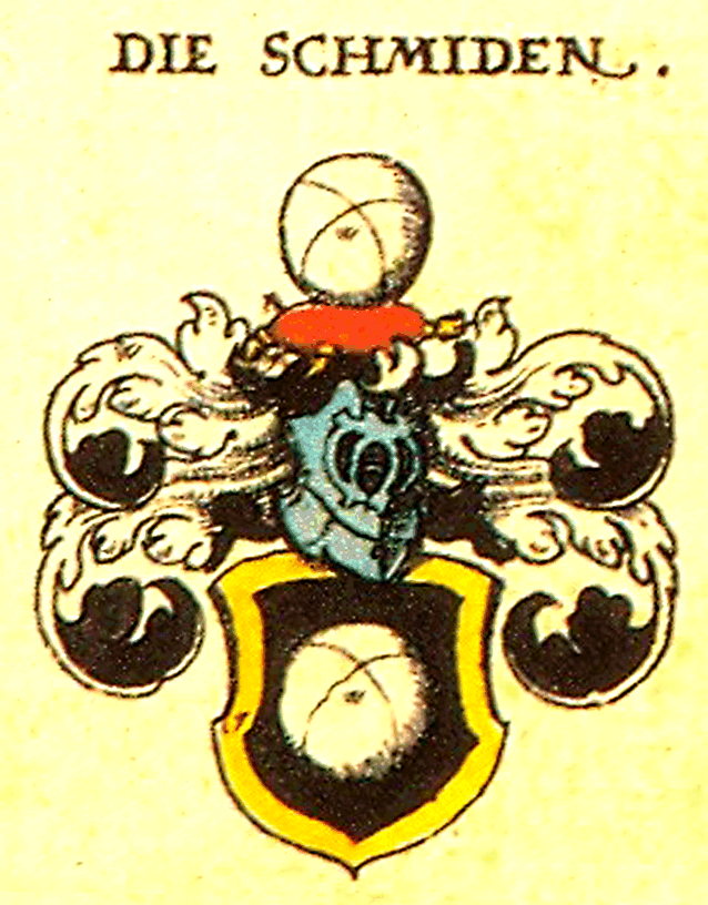 Coat of Arms of Schmid, Swiss nobility